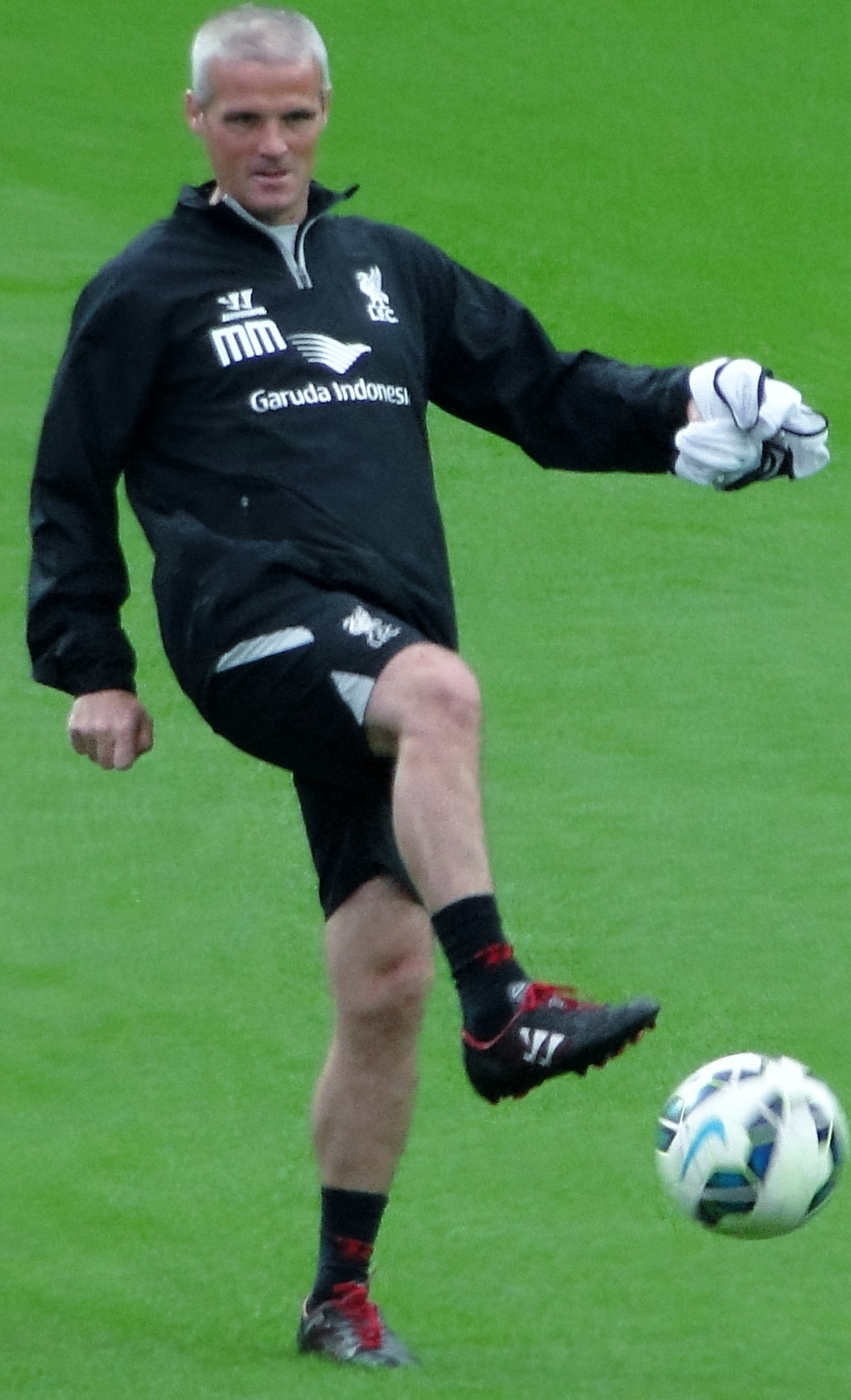 Former Liverpool player and current coach, Mike Marsh before their game against West Ham United at the Boleyn Ground, London, September 2014.